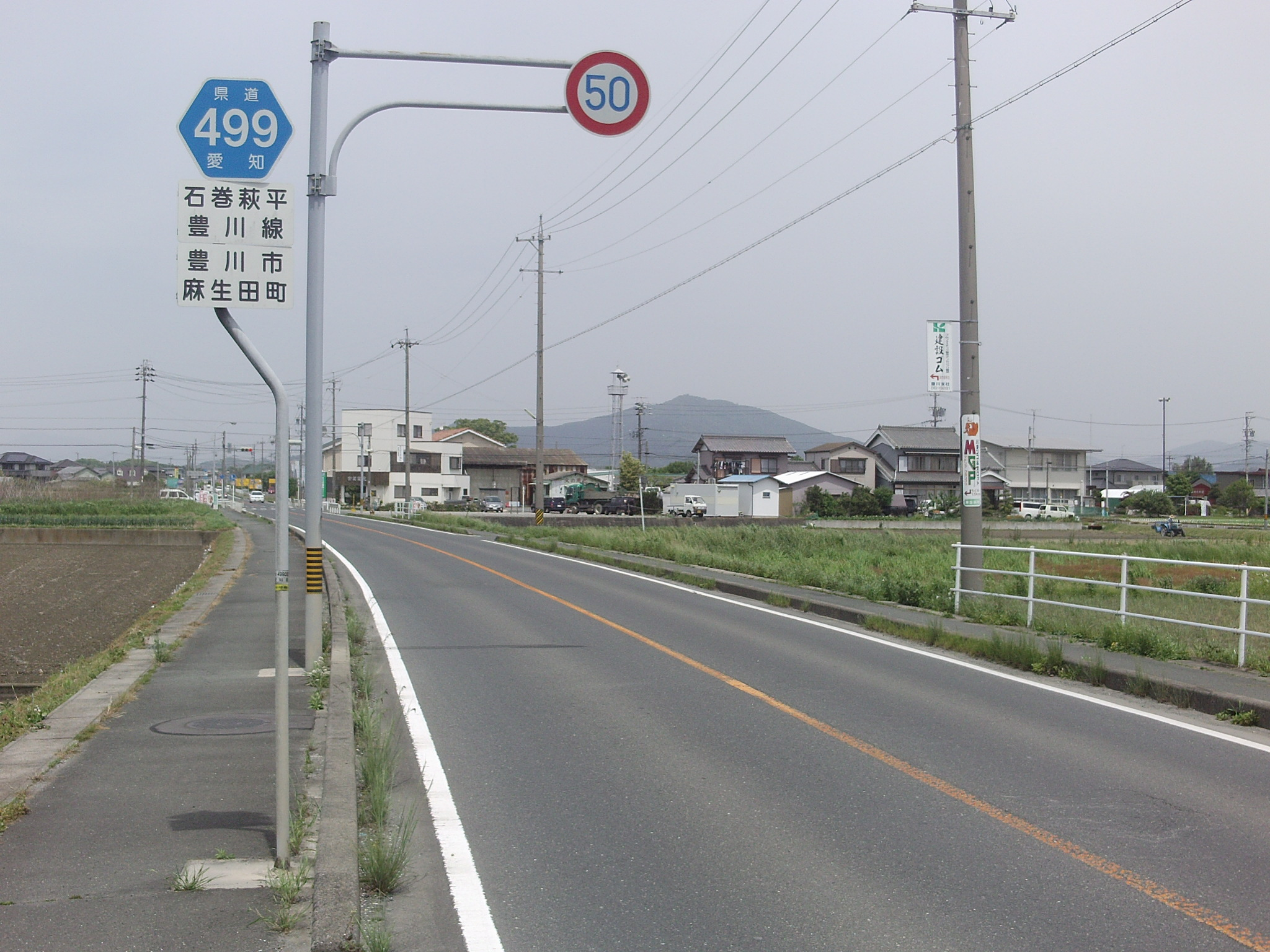 Aichi prefectural road No.499 in Asoudacho, Toyokawa, Aichi.